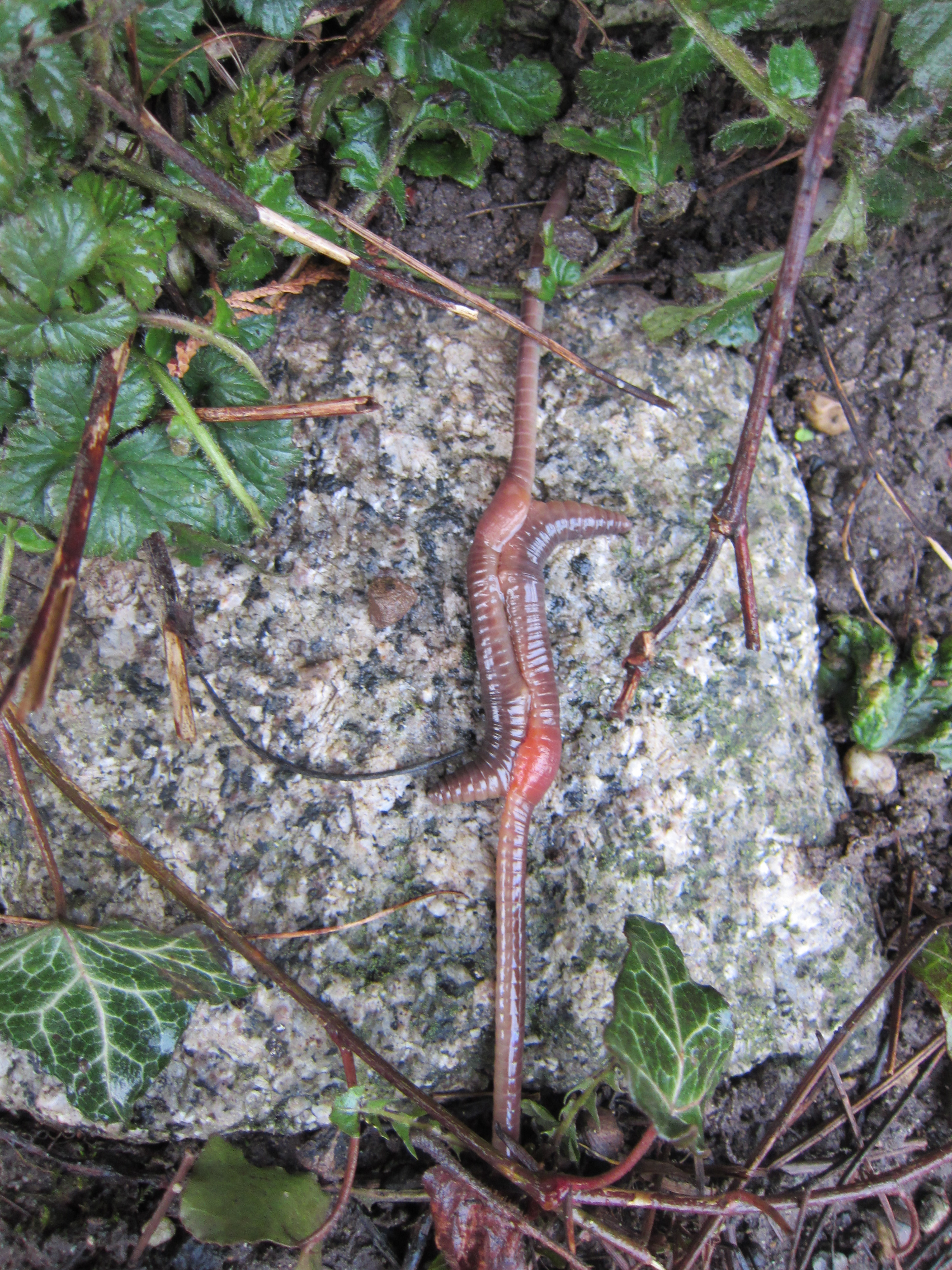 Two earthworms copulating in the wild